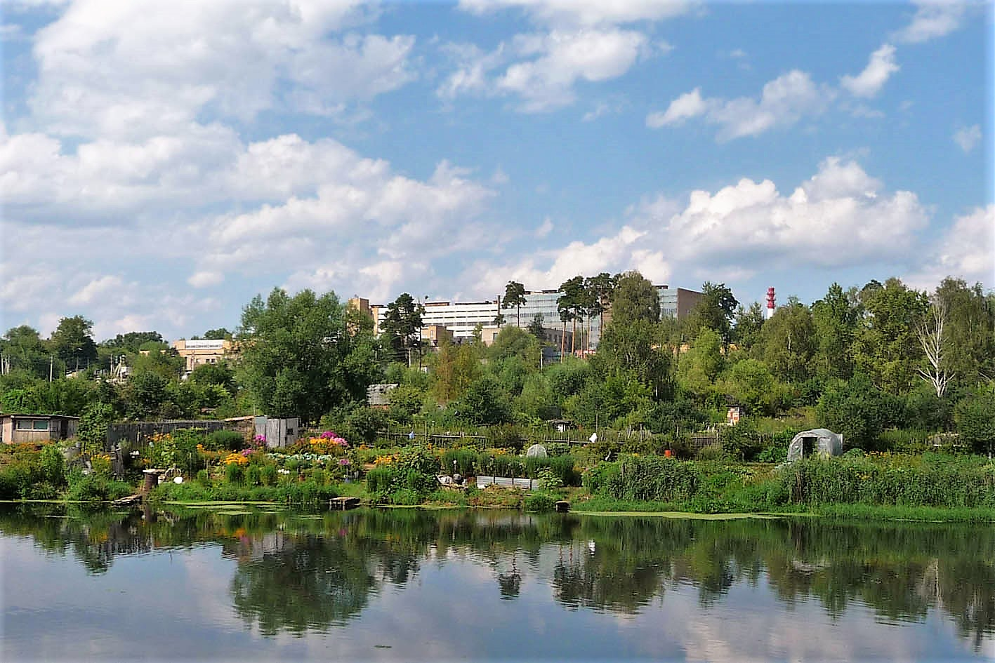 View on the Biokombinat from the right bank of the river of Klyazma. Shchyolkovsky District, Moscow oblast, Russia.